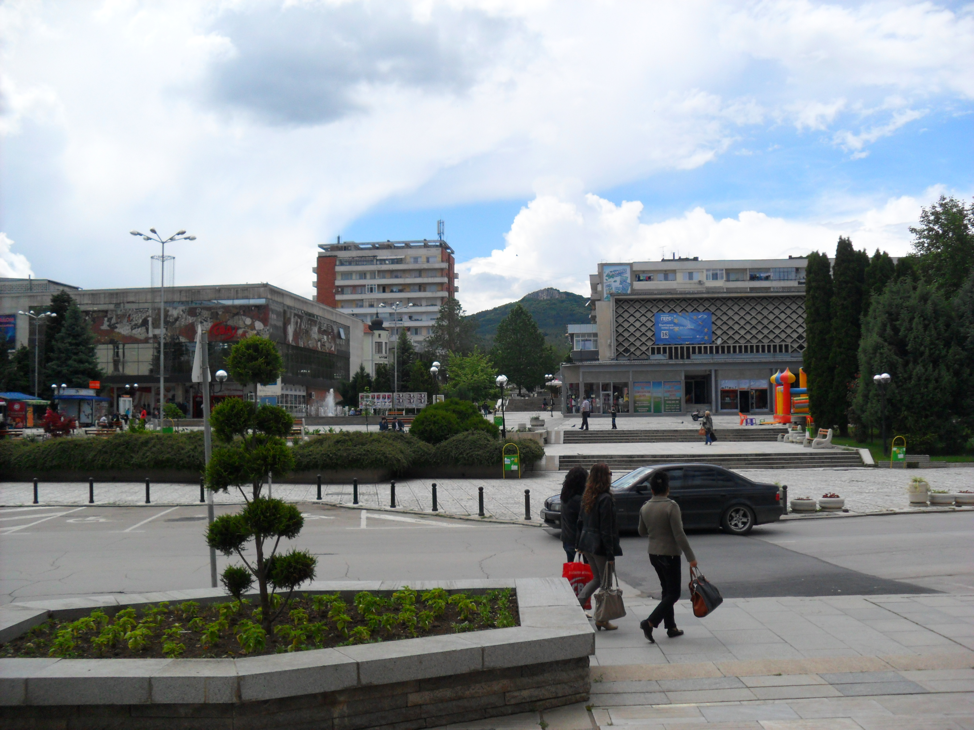 Picture of the walk zone in the Bulgarian town Gorna Oryahovitza